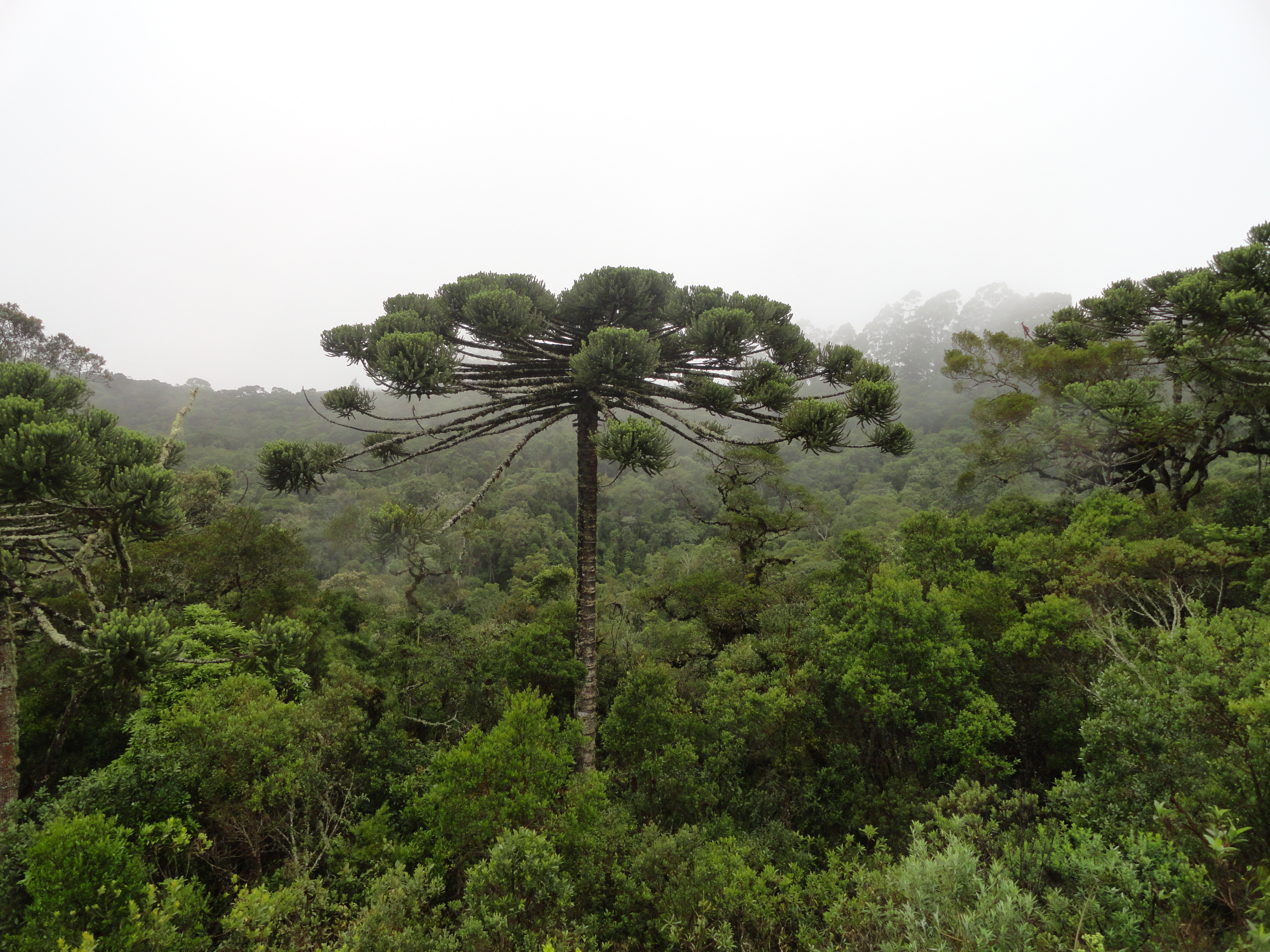 Araucaria angustifolia (Brazilian Araucaria), in Campos do Jordão, state of São Paulo, southeastern Brazil.